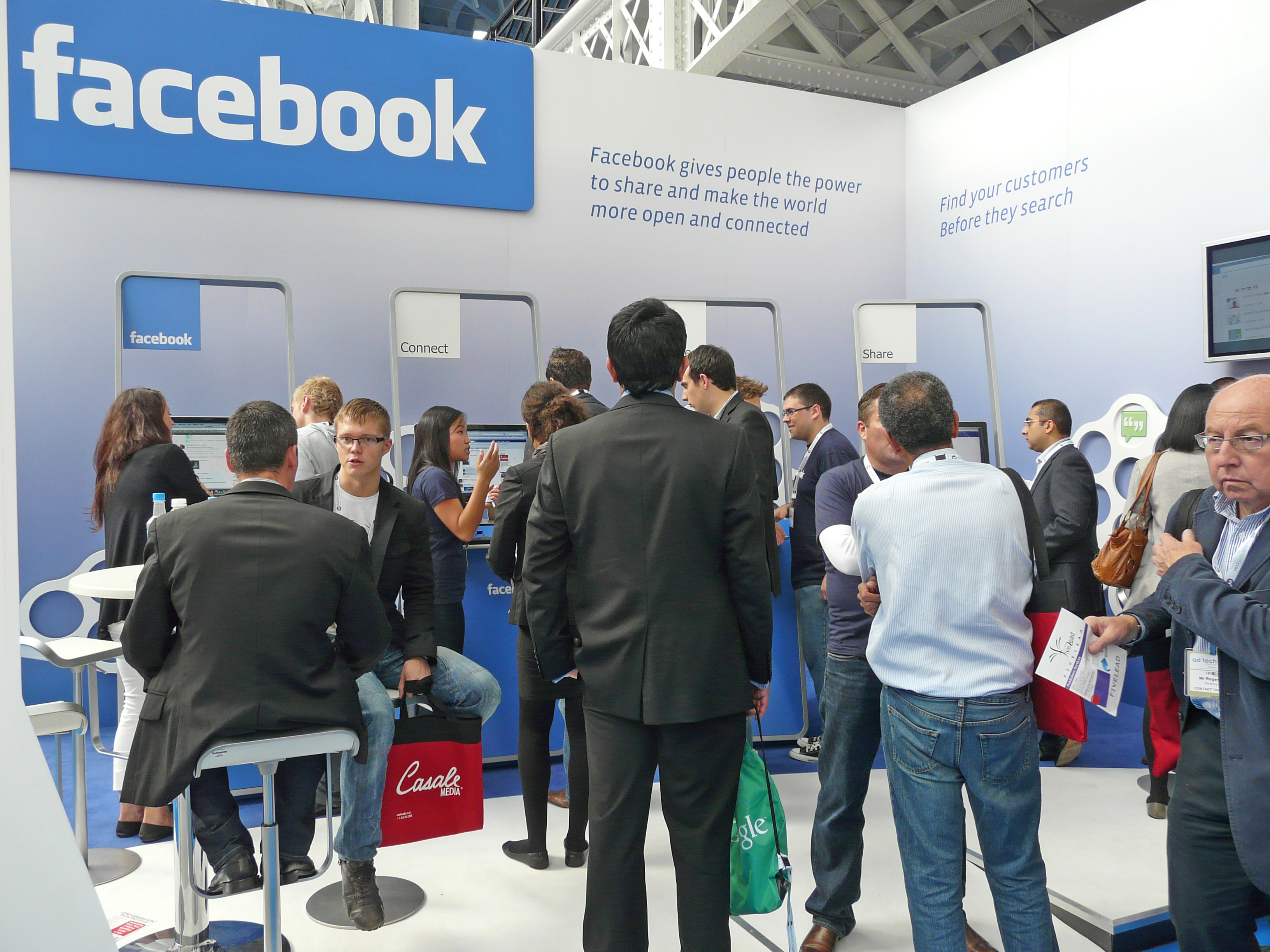 Live on the 21st of September, 2010, ad:tech, London (at Olympia). This was the sixth year in the UK for the online marketing and advertising community to gather at ad:tech London to reveal the latest trends and market figures, share best practices and address industry challenges. ©© Published under Creative Commons in the Metapolisz DVD line. All of the photos and vids in the Metapolisz DVD line are under Creative Commons and can be used even for commercial – for profit – purposes. Recommended Citation Derzsi Elekes Andor: Metapolisz DVD line